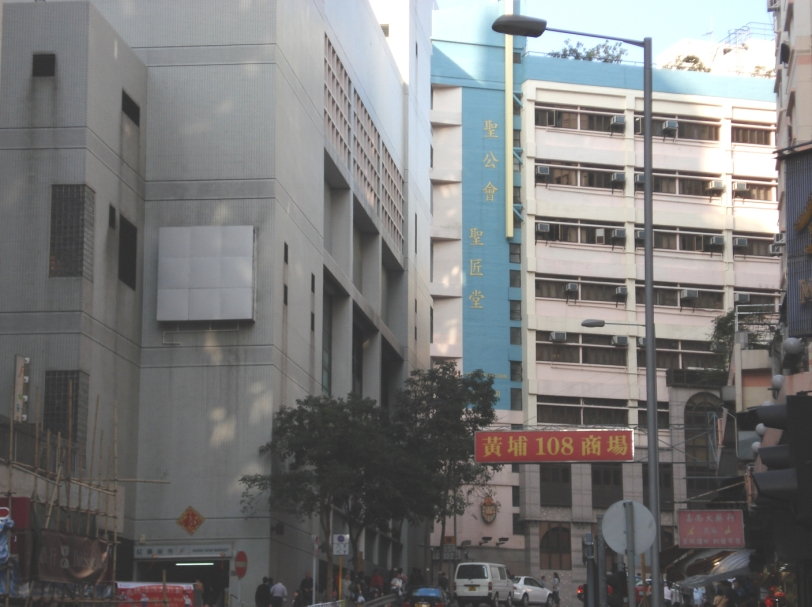 S.K.H. Holy Carpenter Church has been the temporary home for the victims in the collapse along Ma Tau Wai Road since 29 January 2010. The photo was taken at 4:35pm on 31 January 2010.